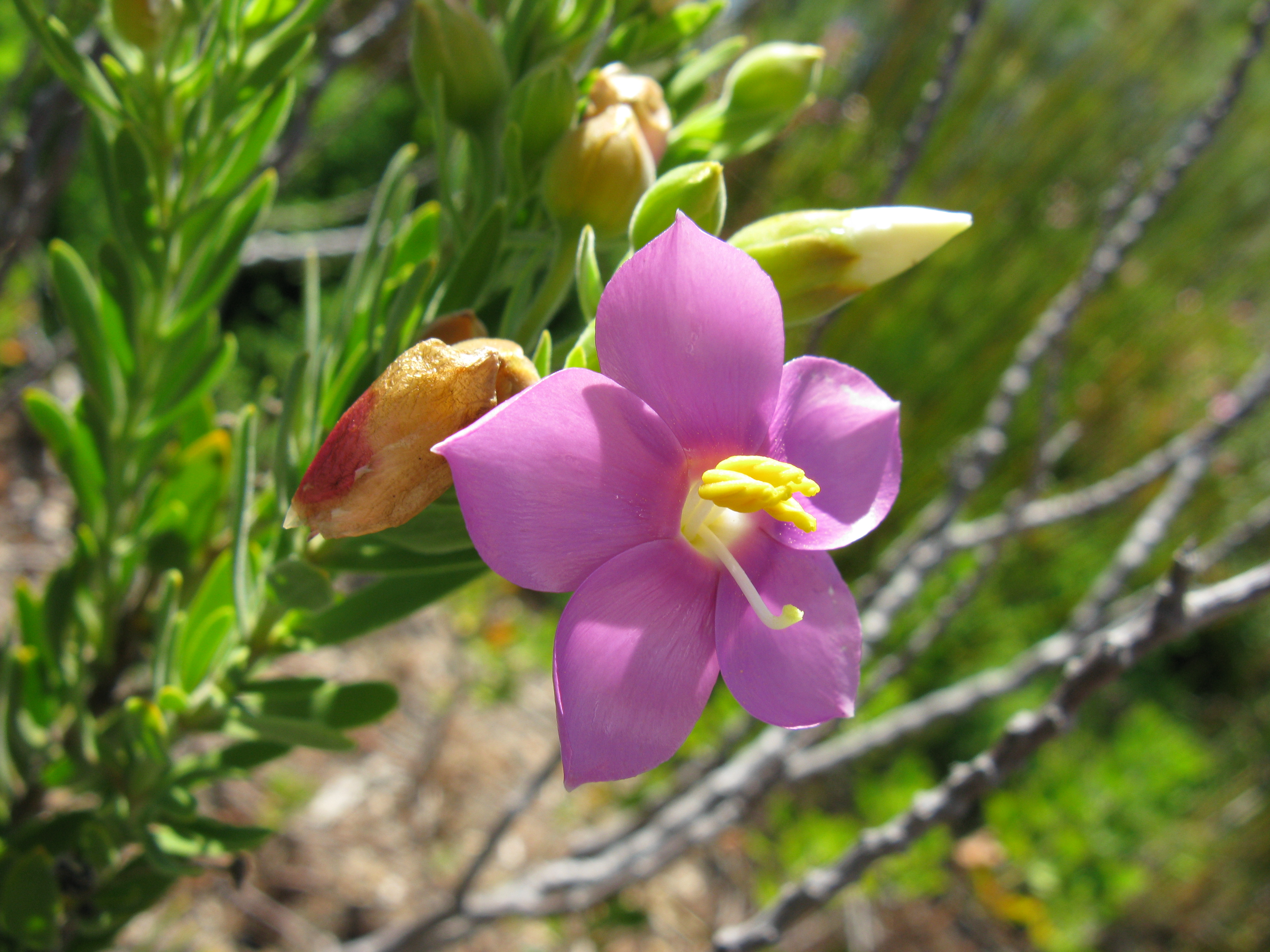 Orphium frutescens is a coastal fynbos plant growing along the coast of the south western Cape of South Africa. Its flowers are a cheerful, glossy pink with golden stamens, avidly visited by pollinators. It is a short-lived perennial that self-seeds even on unpromising soil, though it really does best on dune sands.